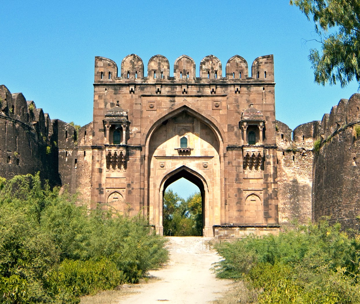 Sohail Gate, Rohtas Fort This is a photo of a monument in Pakistan identified as the PB-30